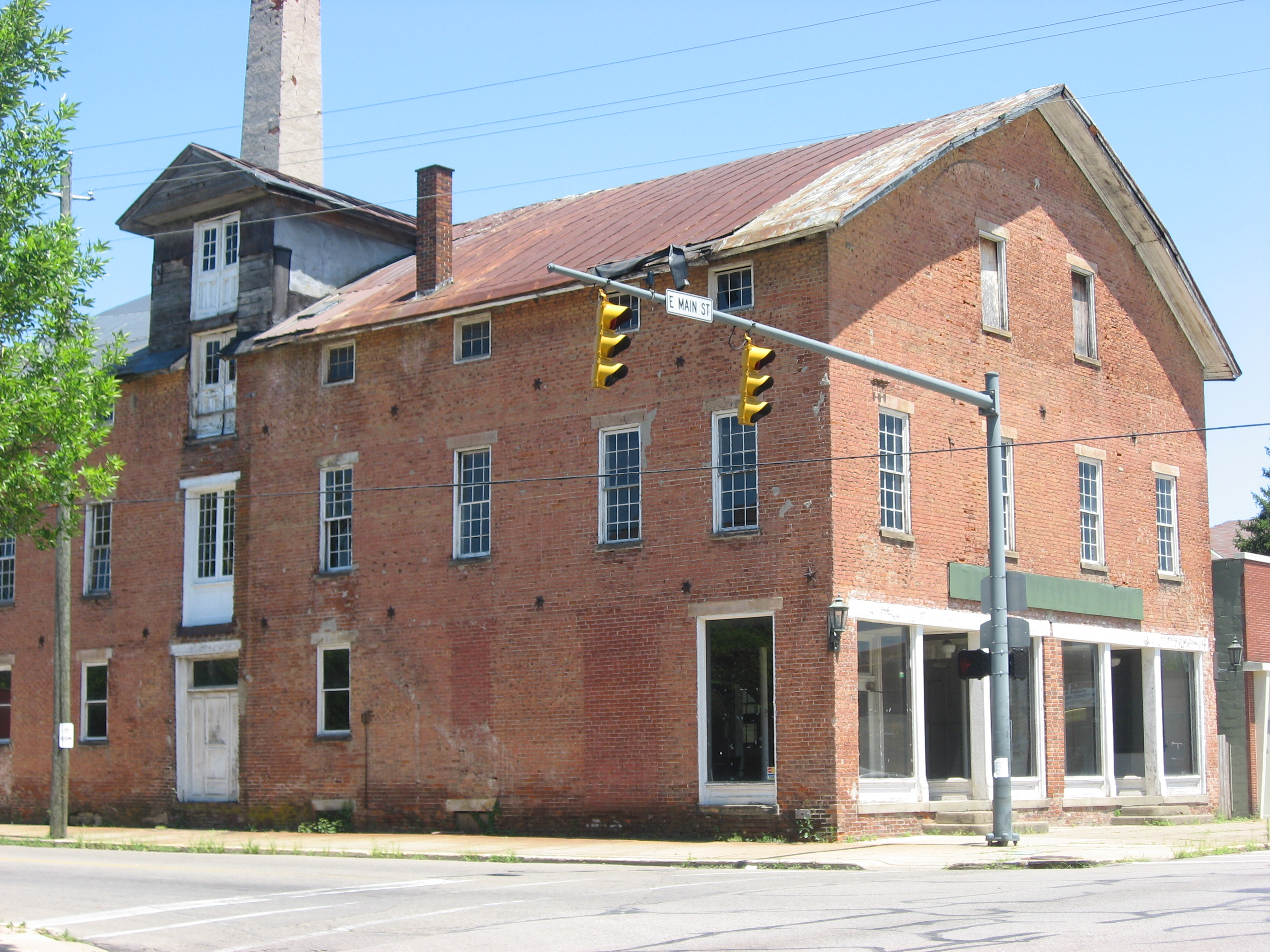 Front and western side of the Canal Warehouse, located on the northeastern corner of the intersection of Main (U.S. Route 50) and Mulberry Streets in downtown Chillicothe, Ohio, United States. Built in 1830 along the Ohio and Erie Canal and later used by the Veterans of Foreign Wars, it is listed on the National Register of Historic Places, and it is a part of a Register-listed historic district, the Chillicothe Business District.